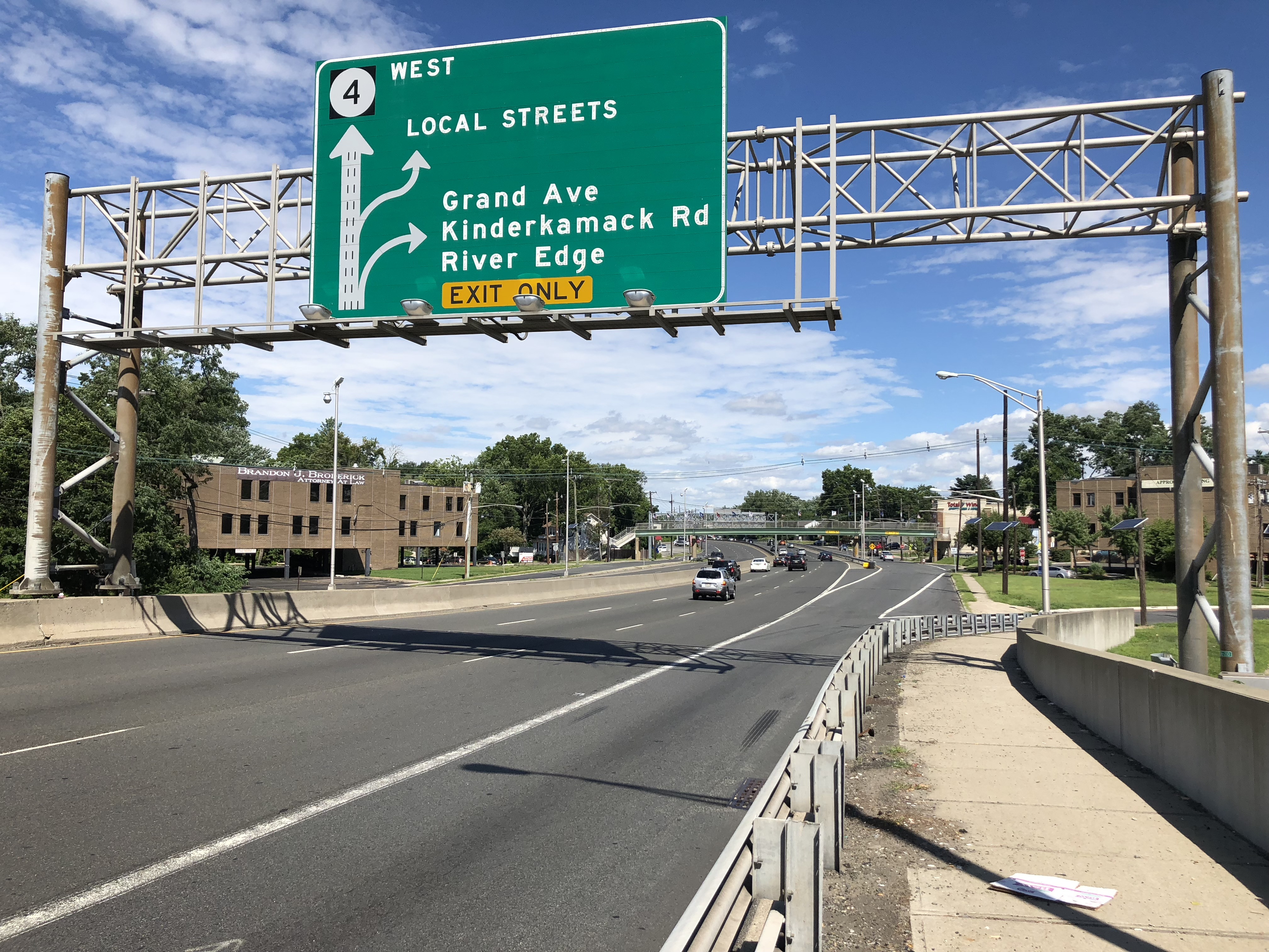 View west along New Jersey State Route 4 at the exit for Grand Avenue/Kinderkamack Road (River Edge) in River Edge, Bergen County, New Jersey